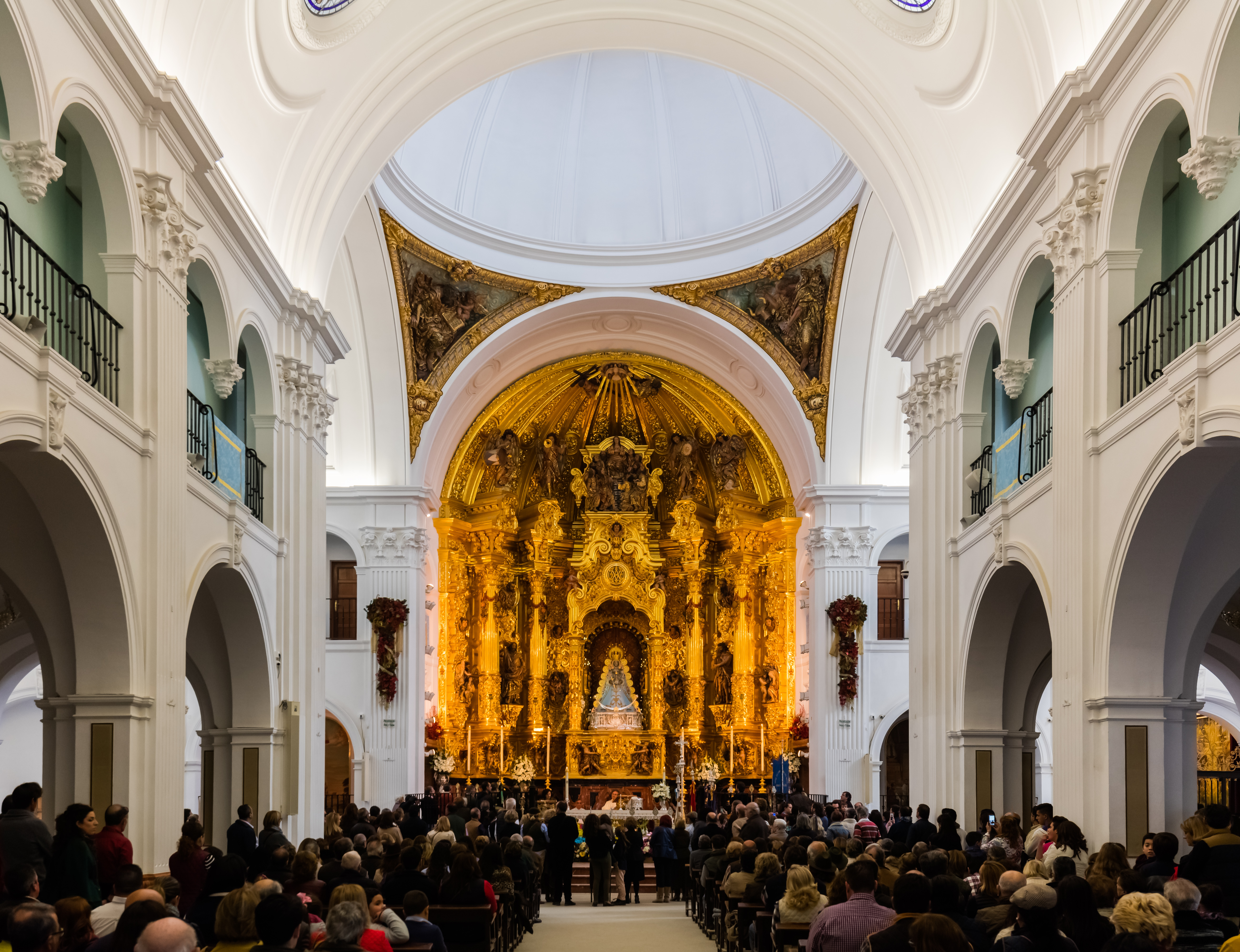 Ermita del Rocío, El Rocío, Huelva, Spain